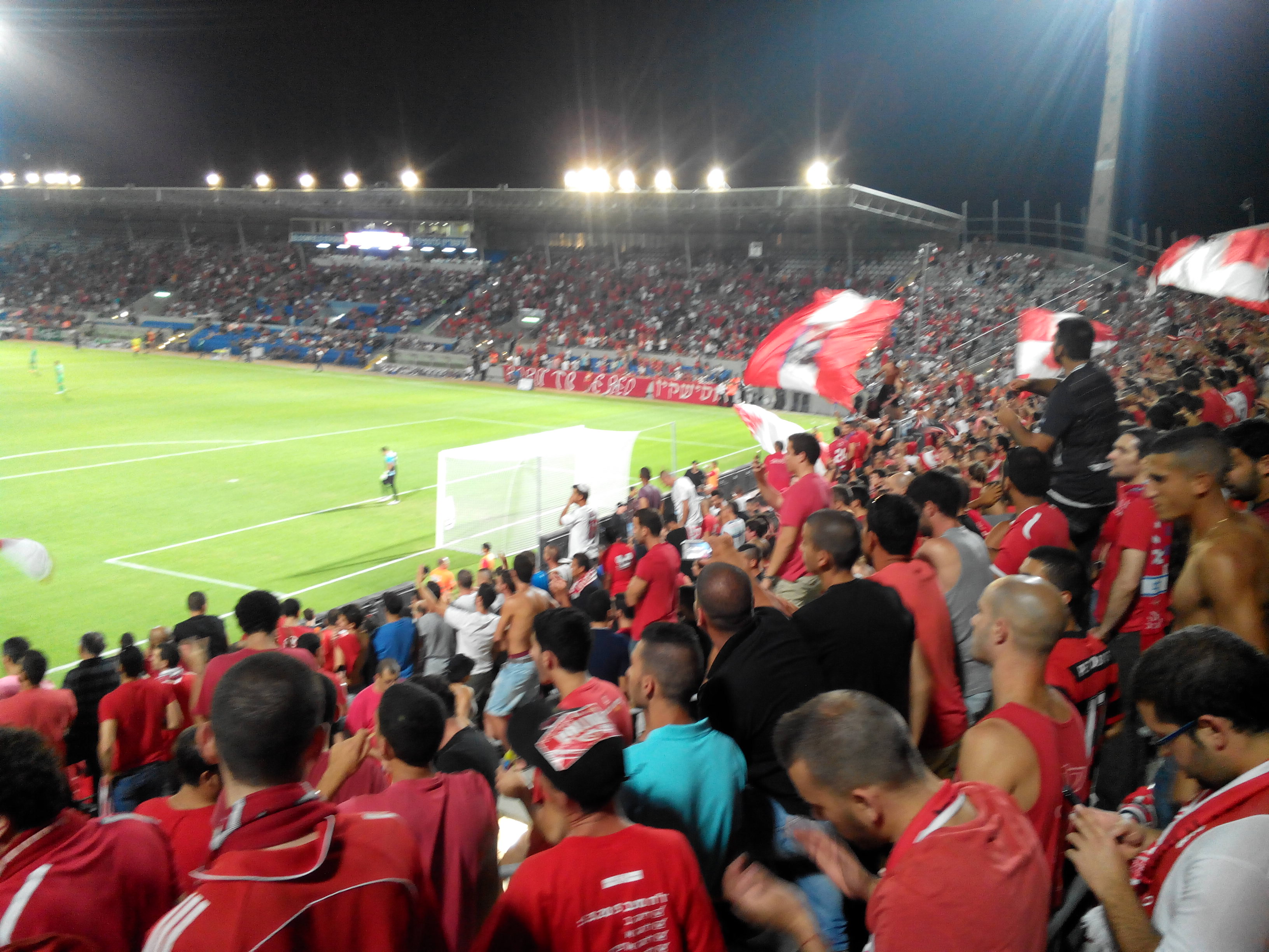 Hapoel Tel Aviv Fans during a match in the UEFA Europa League